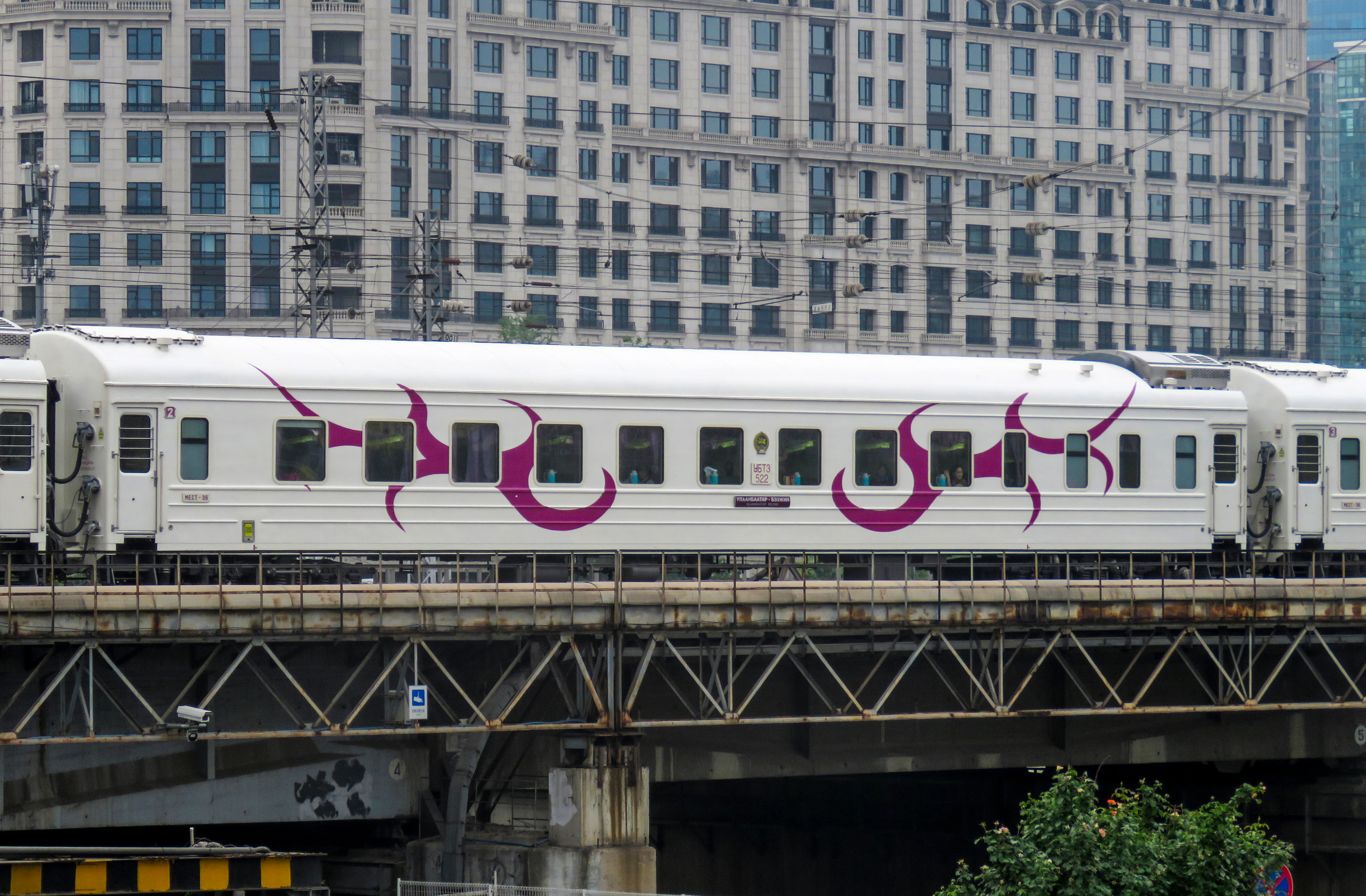 K24 from Ulaanbaatar. Like other coaches, Car 2 features turquoise flasks in every compartment... These carriages are built by CNR Tangshan in 2007 according to this report.